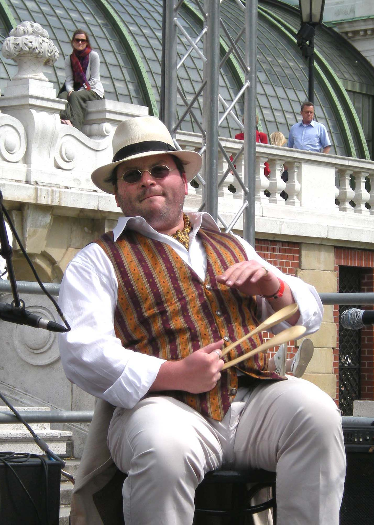 '16er Buam' performance at Vienna's annual Stadtfest, 2009, in 'Burggarten'. Note: Camera timesetting is UTC, which is local time -2.